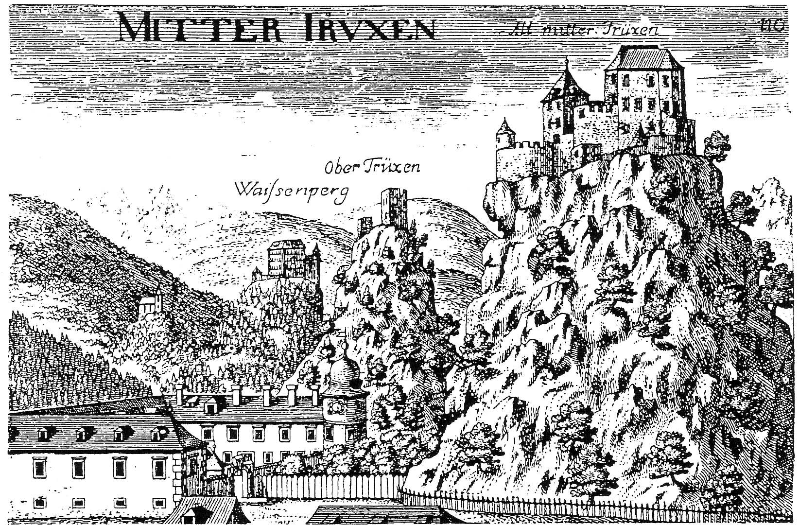 Engraving of Waisenberg and Mittertrixen from Valvasor